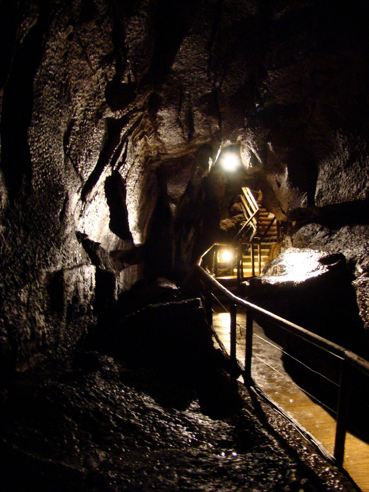 A section of limestone passage in Marble Arch Caves, with the showcave path traversing through it.